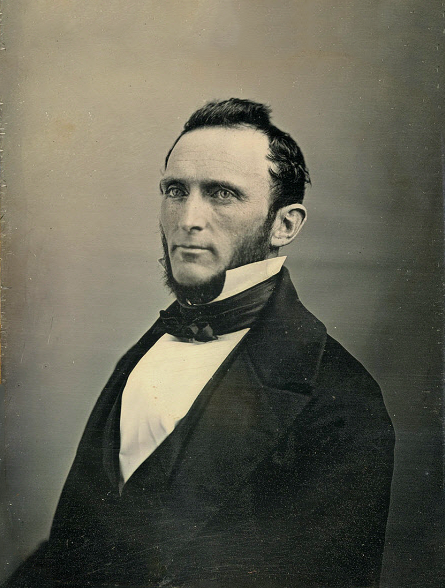 When future Confederate general Stonewall Jackson sat for this likeness in 1855, his emergence as one of the South’s most brilliant military tacticians lay six years away. Jackson had this daguerreotype made as a memento for his aunt and uncle while visiting them in the summer of 1855.